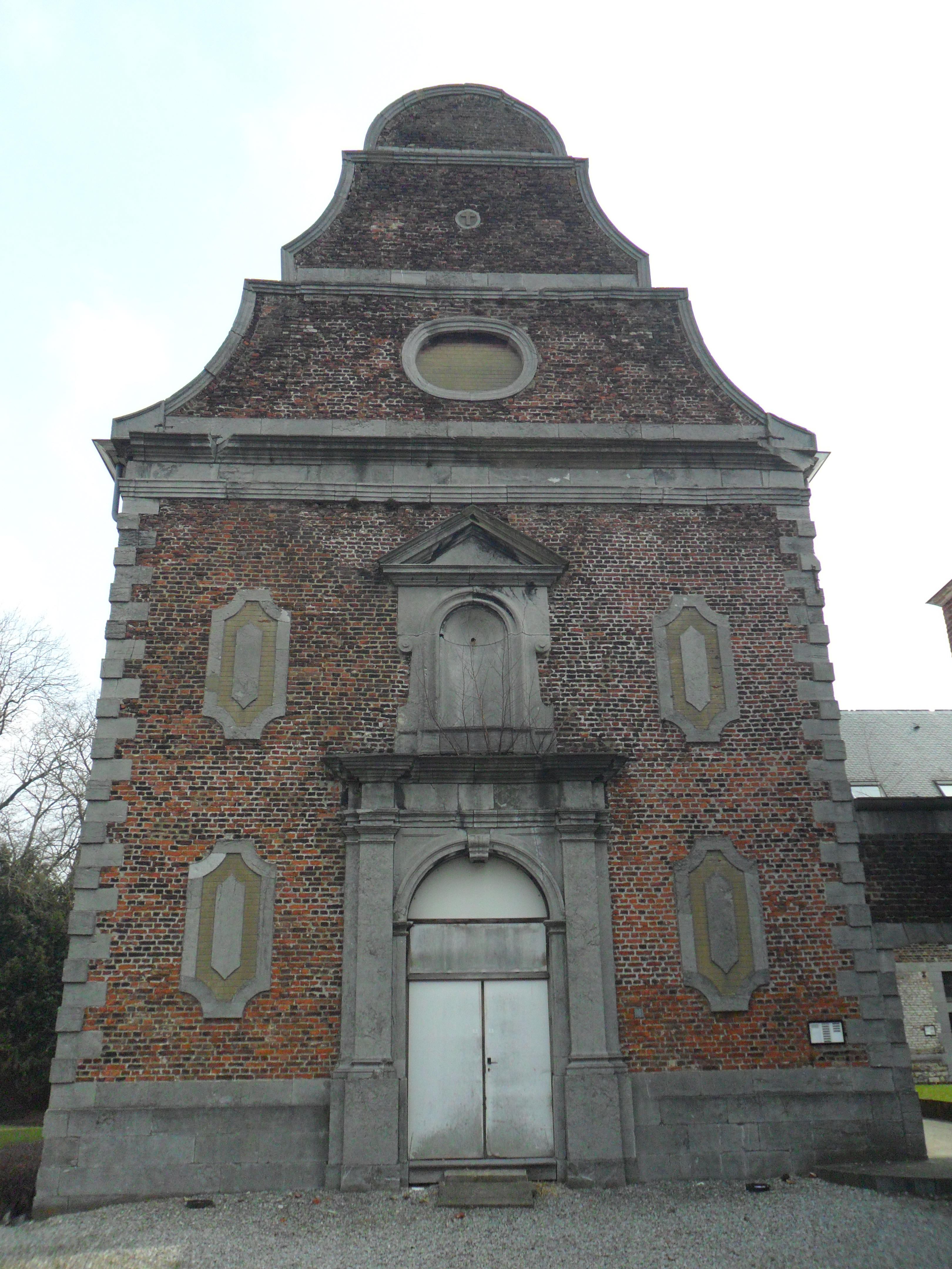 Front of the Prieuré Saint-Michel